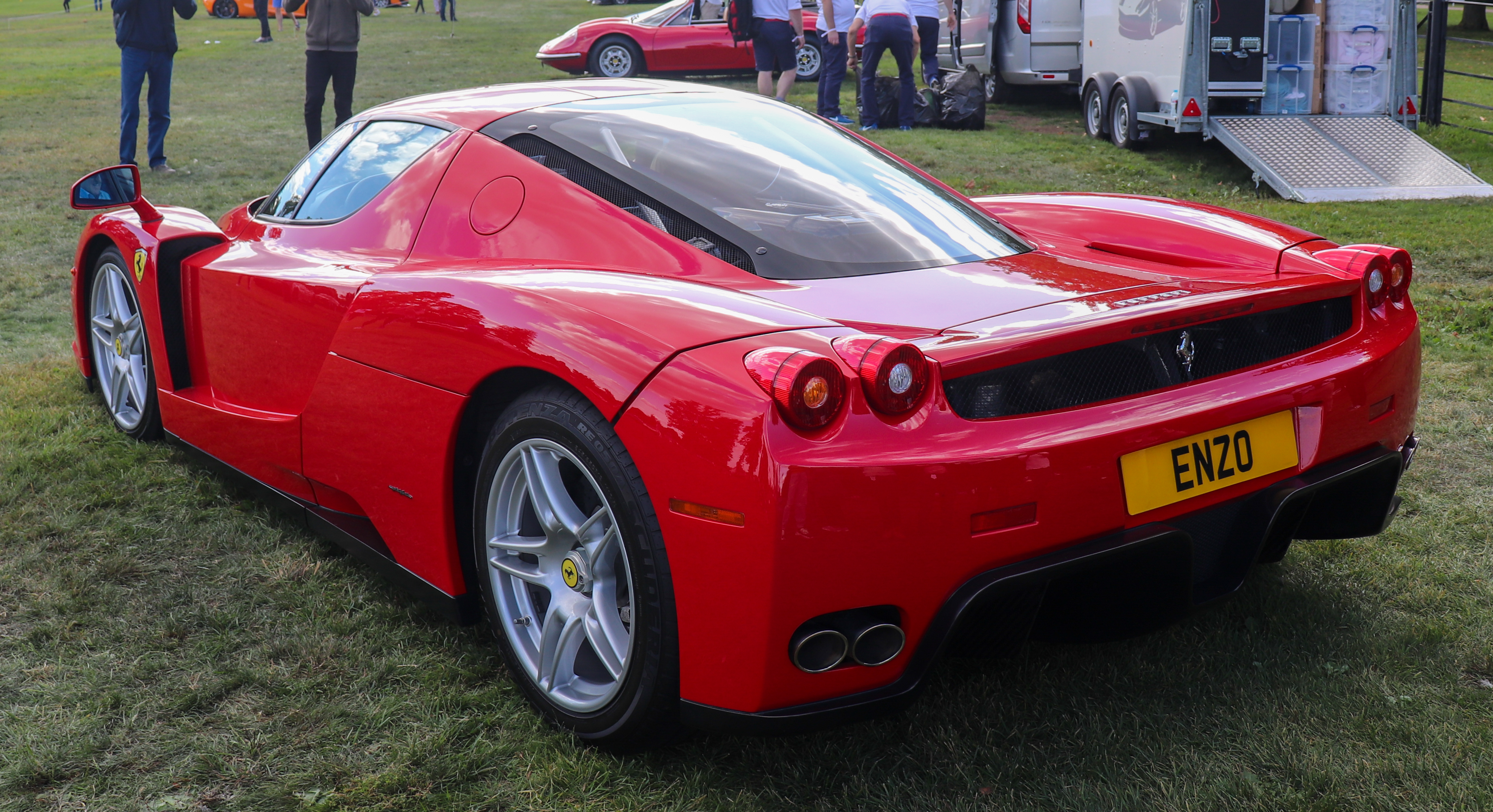 2003 Ferrari Enzo 6.0 Rear Taken at the Salon Privé Concours d'Elegance Classic Car Motor Show 2019, Blenheim Palace